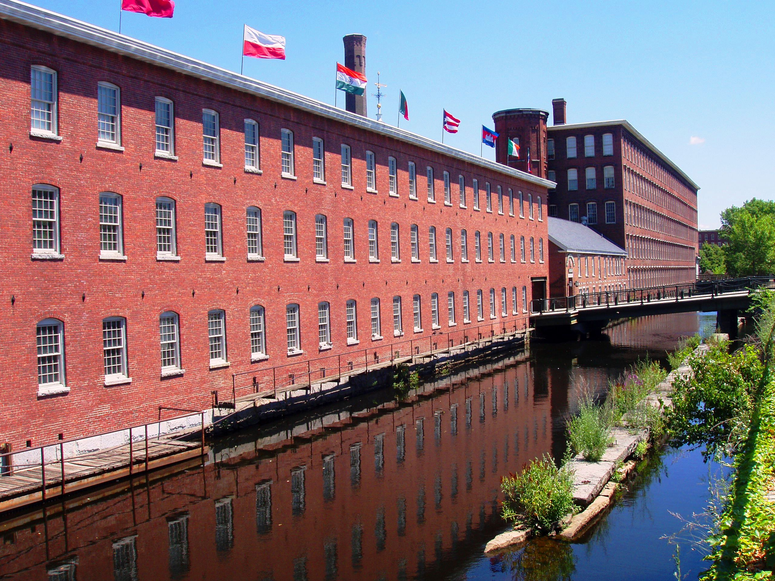 Mill Building (now museum), Lowell, Massachusetts.